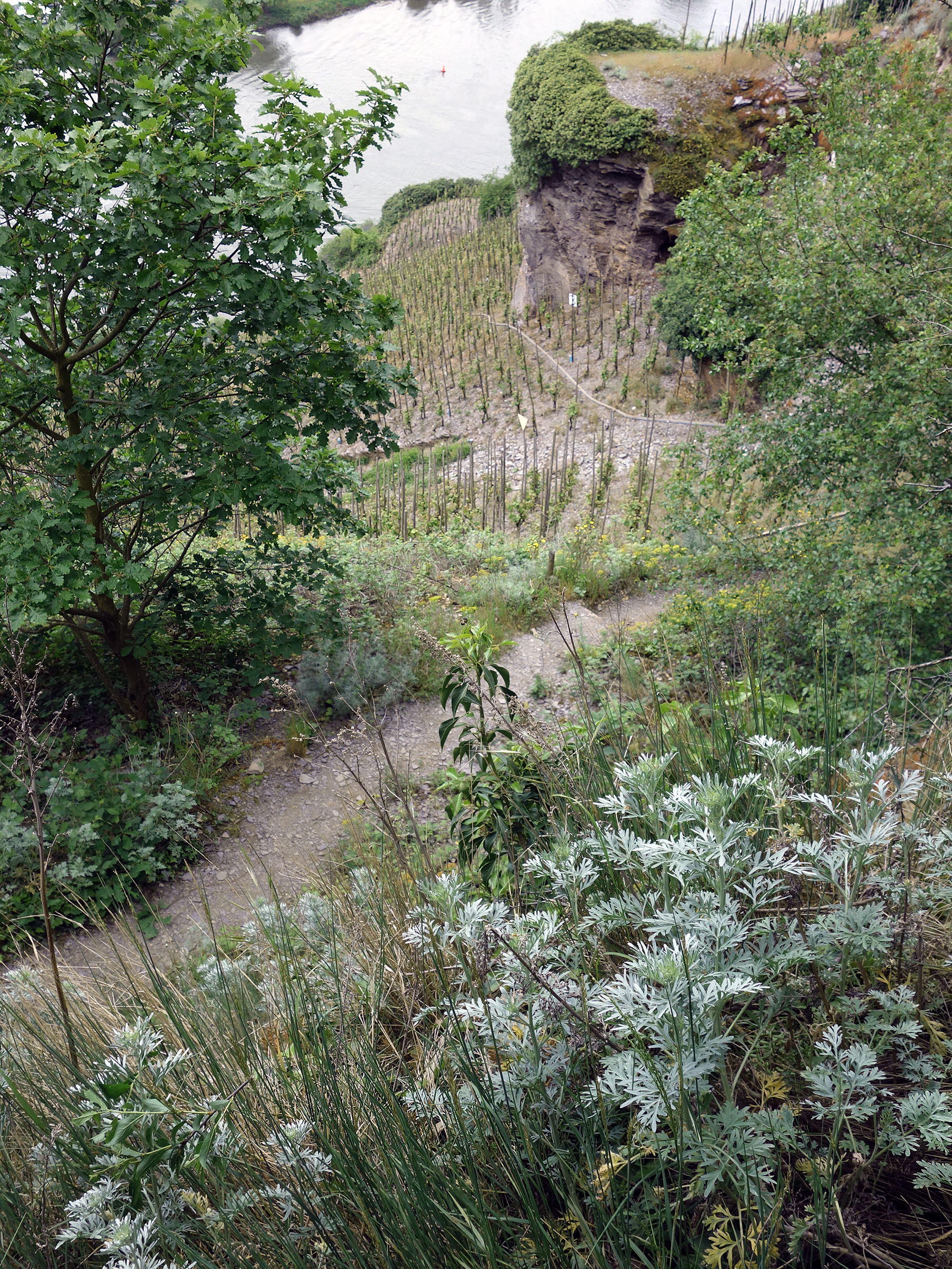 Hiking trail at Erdener Treppchen vineyard site in Erben on the Moselle river, Germany.